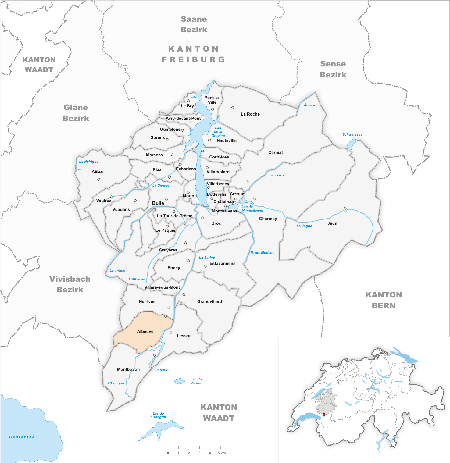 Municipality Albeuve Artist: Tschubby